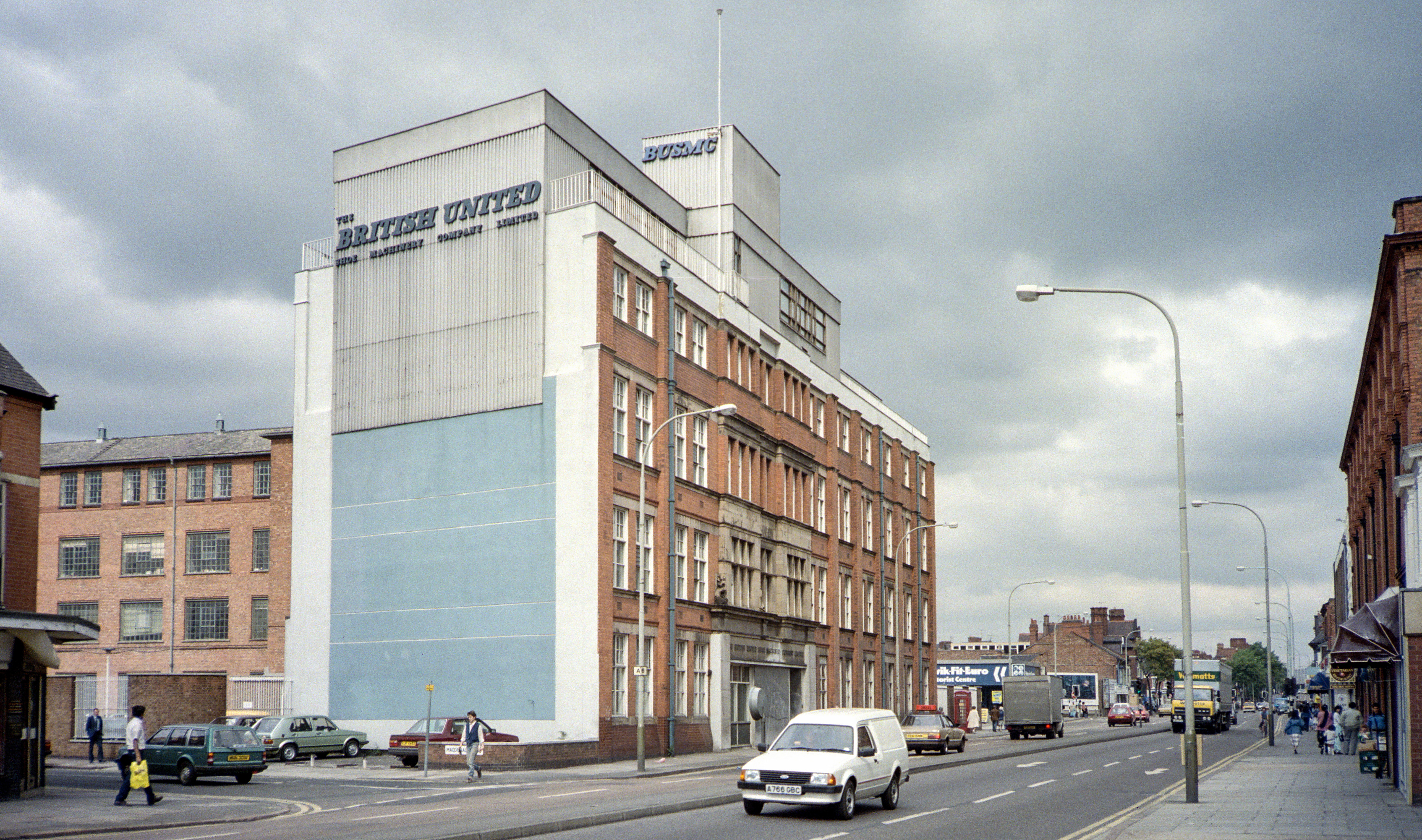 British United Shoe Machinery Co. Ltd. main entrance on Belgrave Road, Leicester, in 1984. Behind can be seen the Union Works building, by this date vacated, where there had been offices, canteens, and machine shops. Along Ross Walk, to the rear, were further offices, machinery and shoe materials manufacturing departments, warehousing and training facilities.